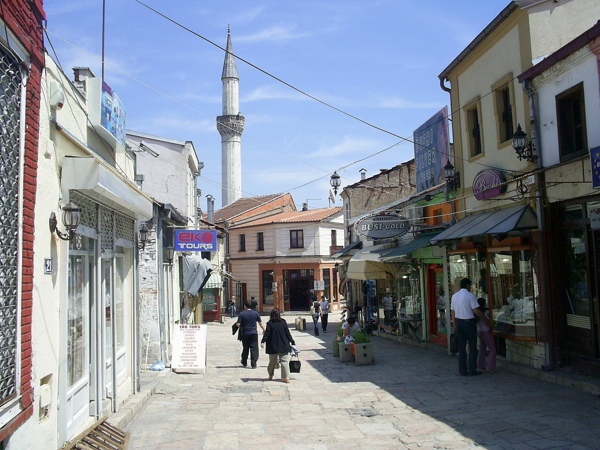 A street in Skopje